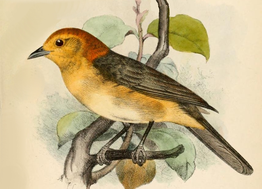 Thlypopsis inornata, Buff-bellied Tanager